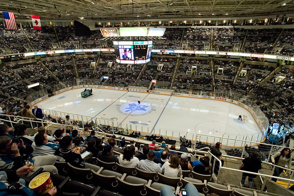 Pittsburgh Penguins vs. San Jose Sharks